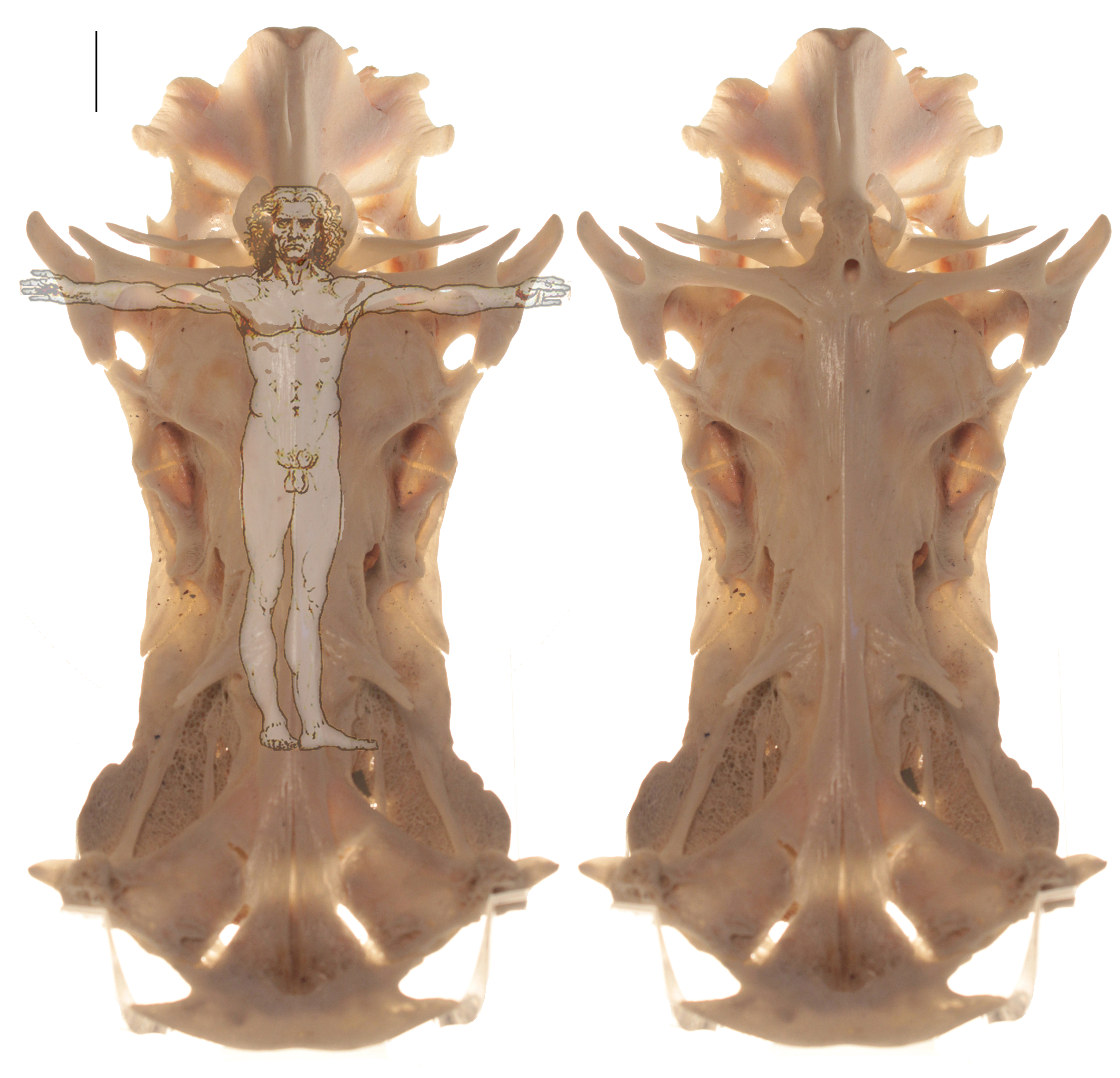 Lower side of a skull of a catfish in the family Ariidae, which, according to folklore, shows Jesus on the crucifix. The left image has Vitruvian Man superimposed from a File:Vitruvian-Icon.png to illustrate where Jesus is said to be depicted, while the right image is simply the skull. In the upper left hand corner, the small black line provides a scale of one centimeter. Frontal side downwards.